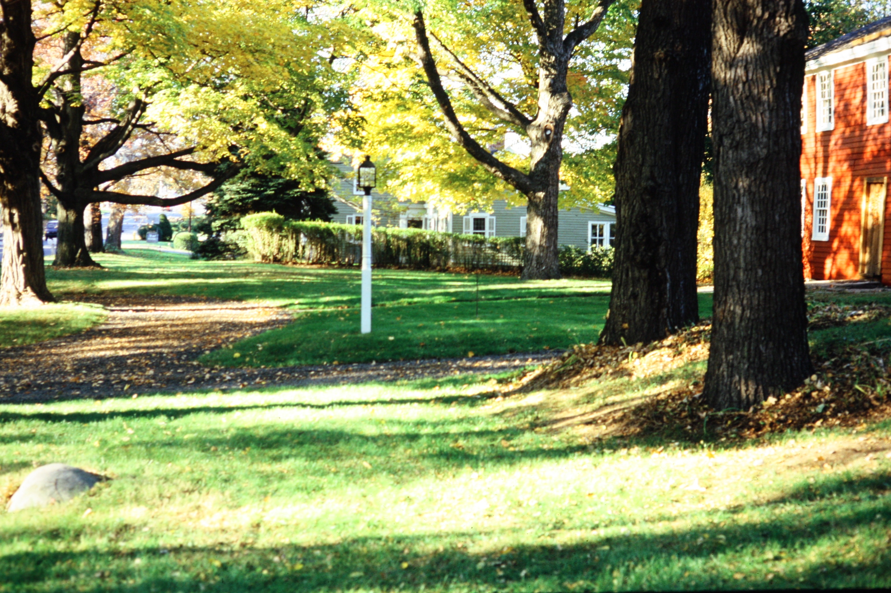 Image of Farm Highway, now Nichols Avenue Route 108, at the Ephraim Hawley and Zachariah Curtiss houses on the south side of Mischa Hill in village of Nichols in Trumbull, formerly Stratford, Connecticut.